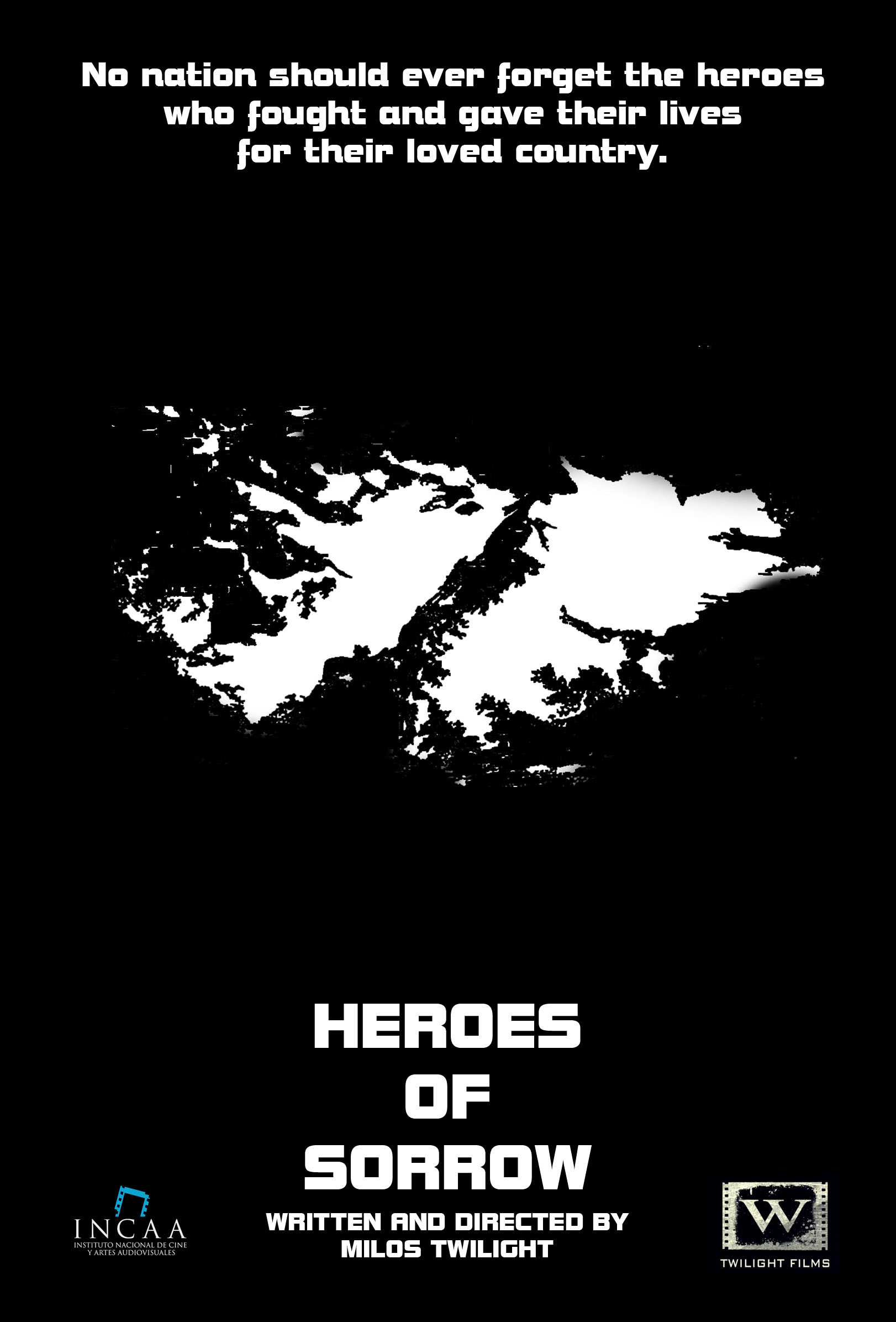 Theatrical release poster of the Film "Heroes of Sorrow", Directed by Milos Twilight. Starring Victor Laplace, Enrique Liporace, Carolina Papaleo, Marcela Lopez Rey, Jorge Roman. Produced by Twilight Films.